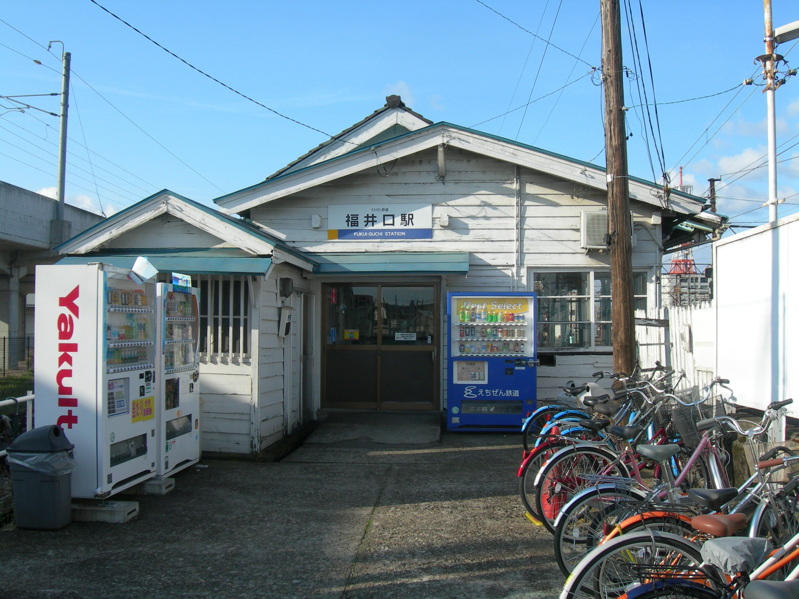 Fukui-guchi Station